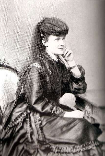 Princess Elisabeth of Wied (later Queen of Romania), 1860s